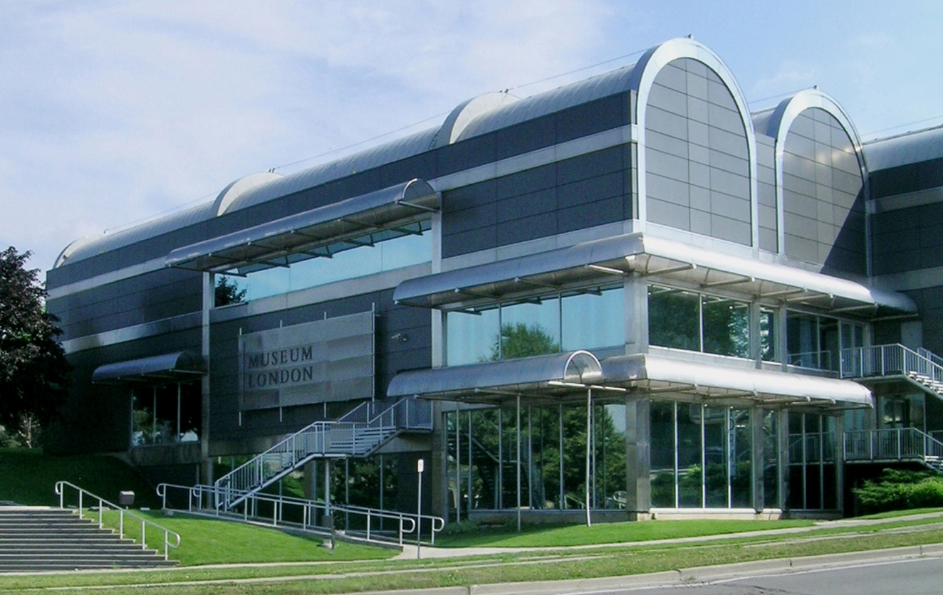 picture from outside